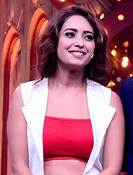 Asha Negi at Launch of the new TV show 'Entertainment Ki Raat'